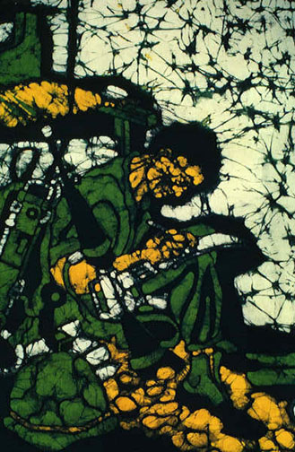 LETTER TO HOME by Stephen H. Randall, CAT VII, 1968, Courtesy of the National Museum of the U.S. Army